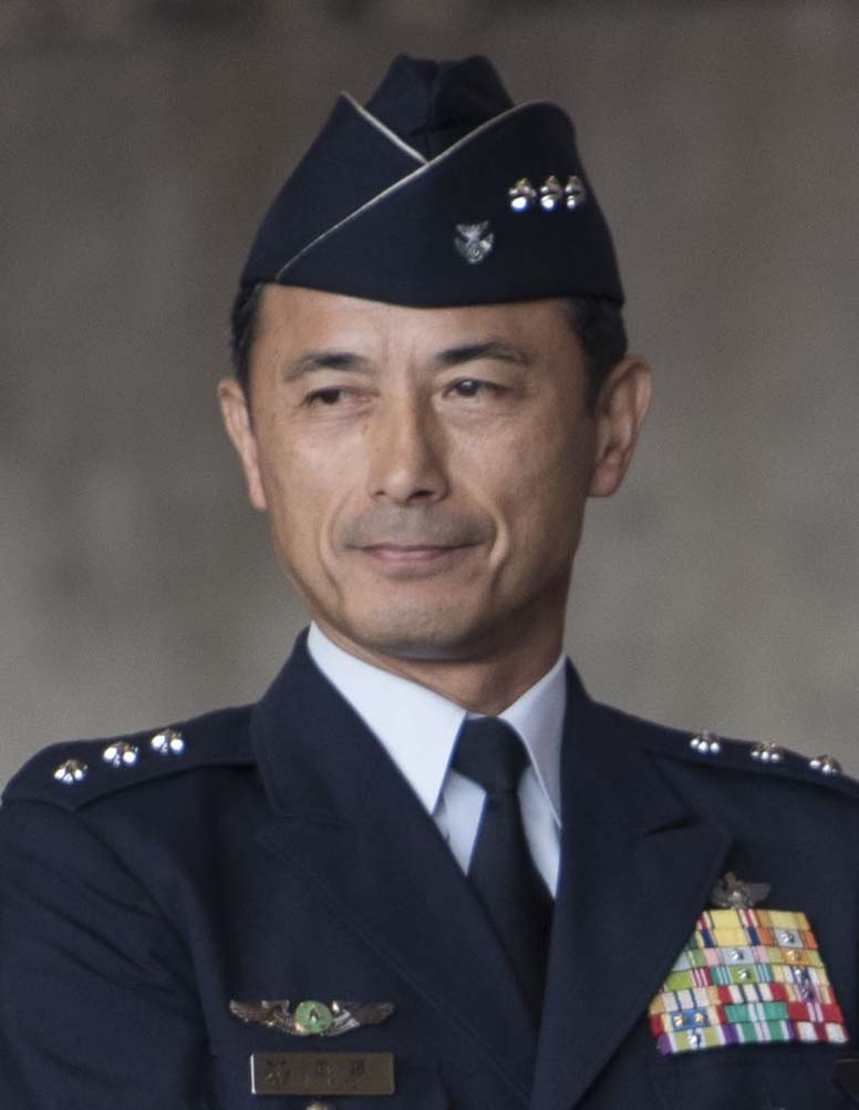 Japan Air Self-Defense Force Lt. Gen. Shigeki Muto, Southwestern Air Defense Force commander.